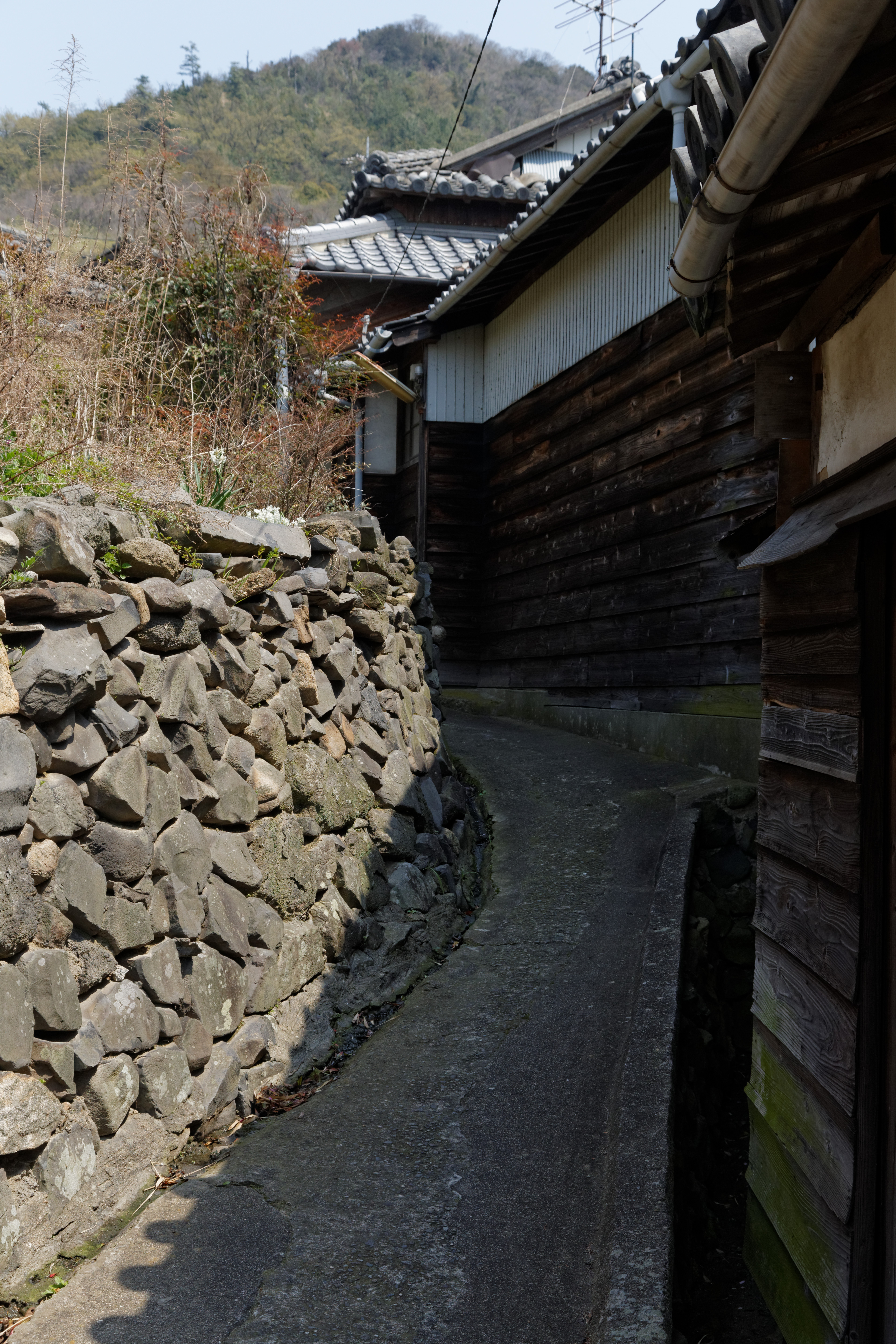 Ogijima 2013-04